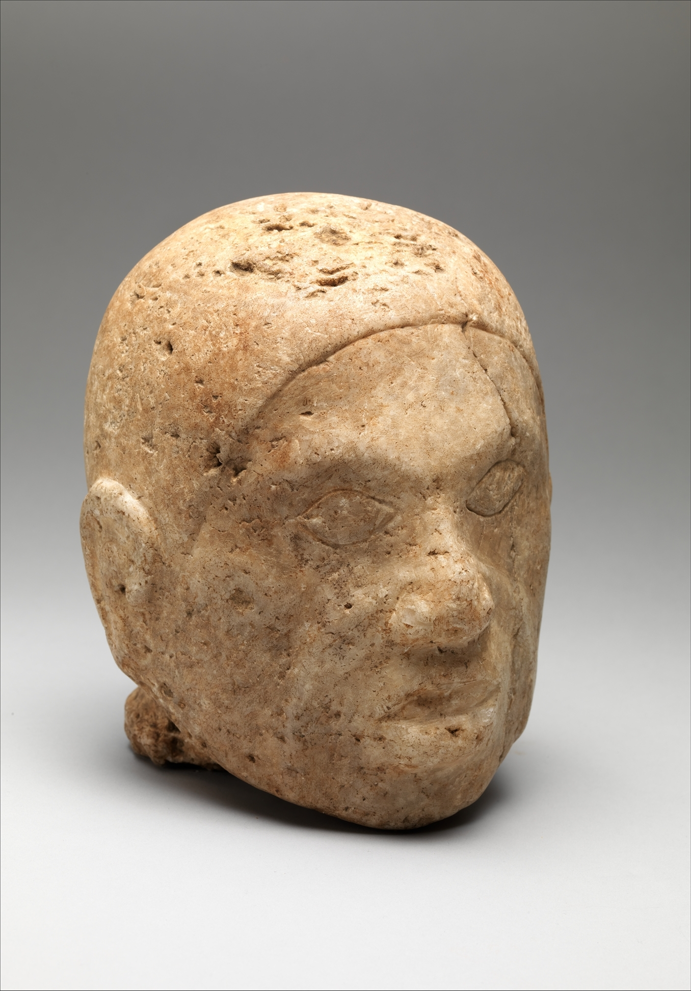 Mississippian; Head; Stone-Sculpture